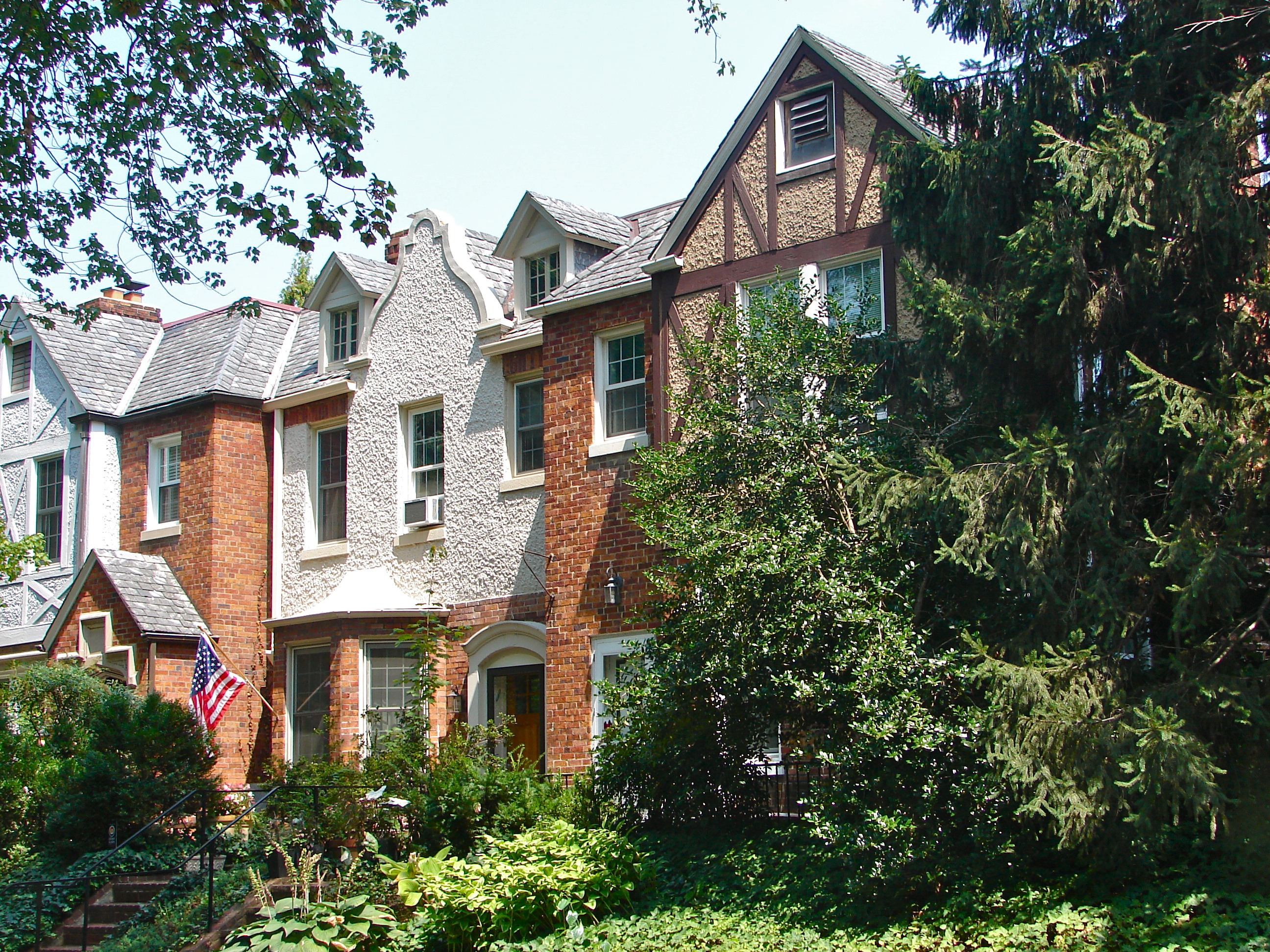 Old Woodley Park Historic District on the NRHP since June 15, 1990. The historic district is roughly bounded by Rock Creek Park, 24th St., 29th St., Woodley Rd. and Cathedral Ave., NW. in the Woodley Park neighborhood of Washington, D.C. This buildings are near the corner of 28th and Cathedral Sts.